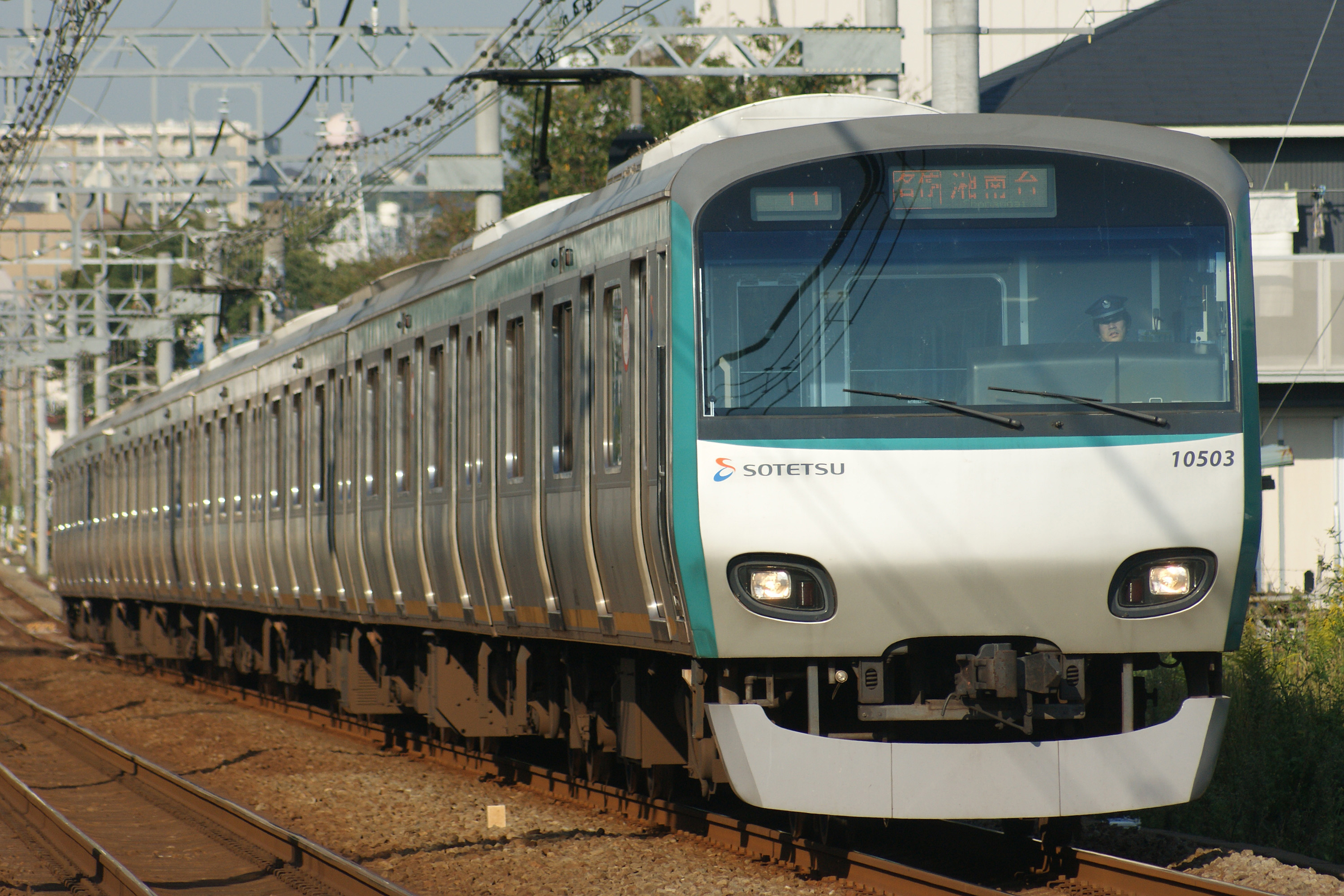 Sagami Railway 10000 series EMU, original color.